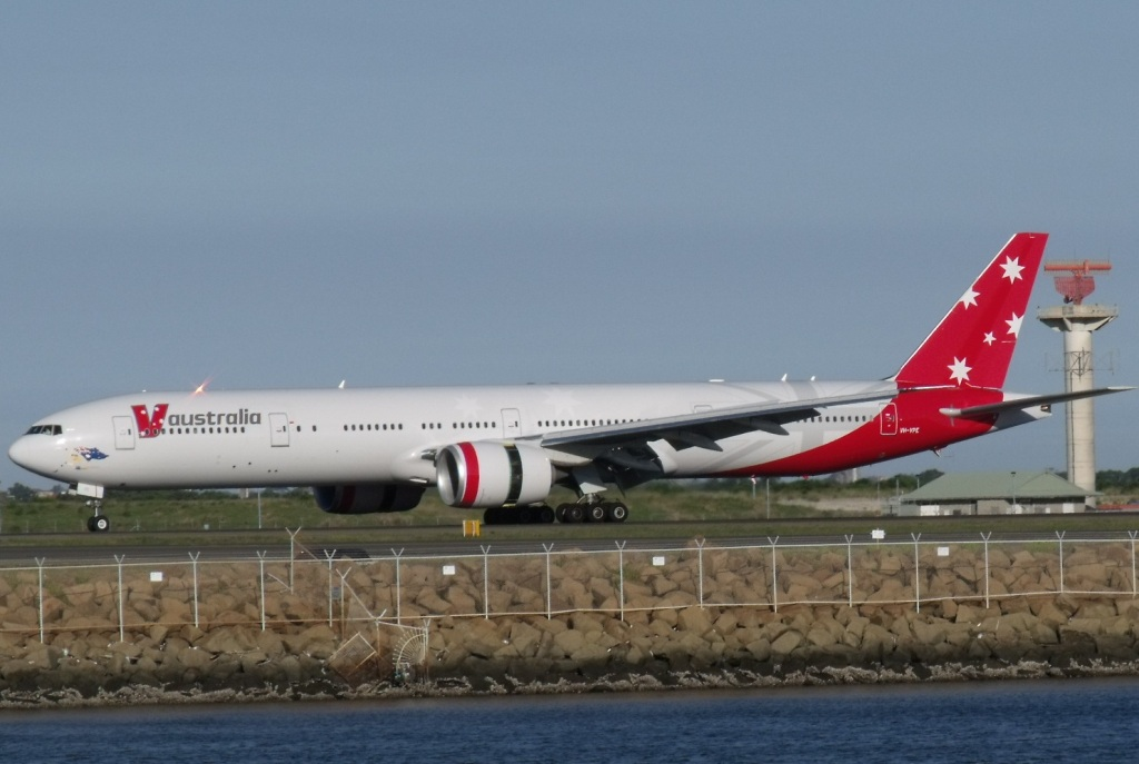 V Australia 777 just landed in Sydney from Los Angeles